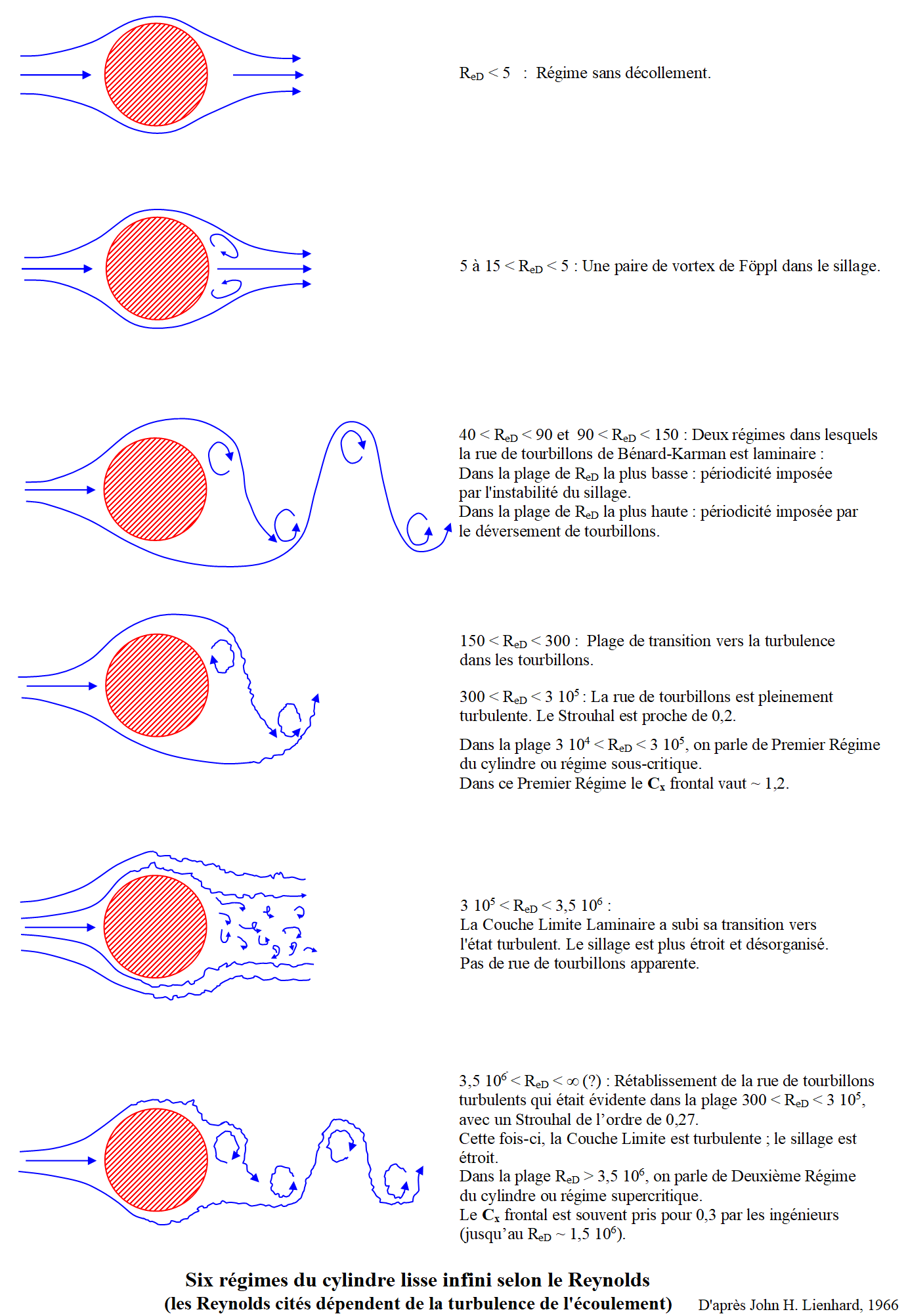 Six regimes of the infinite cylinder, according to Lienhard, SYNOPSIS OF LIFT, DRAG, AND VORTEX FREQUENCY DATA FOR RIGID CIRCULAR CYLINDER, by John H. LIENHARD, WASHINGTON STATE UNIVERSITY